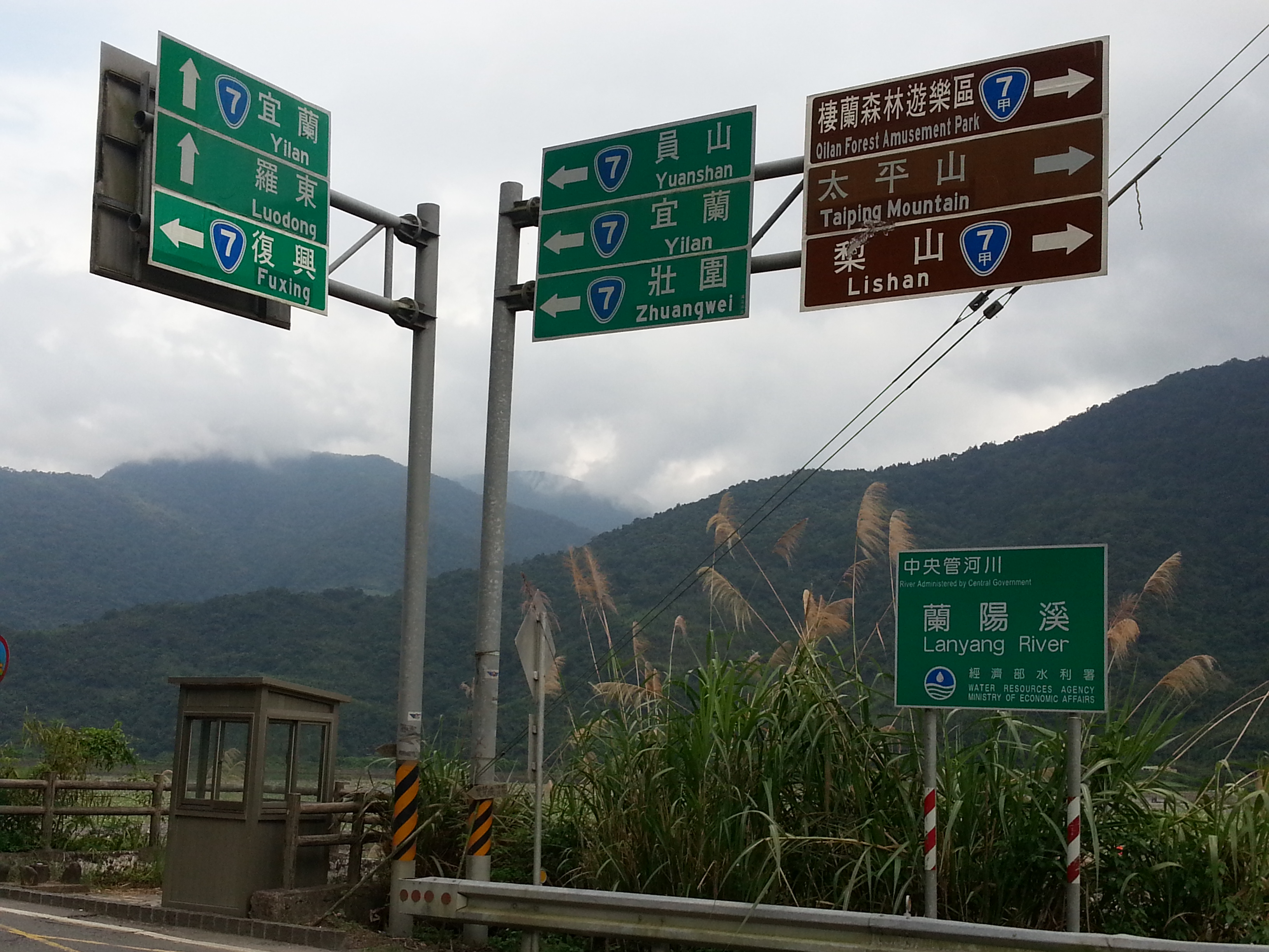 Road Junction at Baitao Bridge中文（中国大陆）: 位于百韬桥的路口